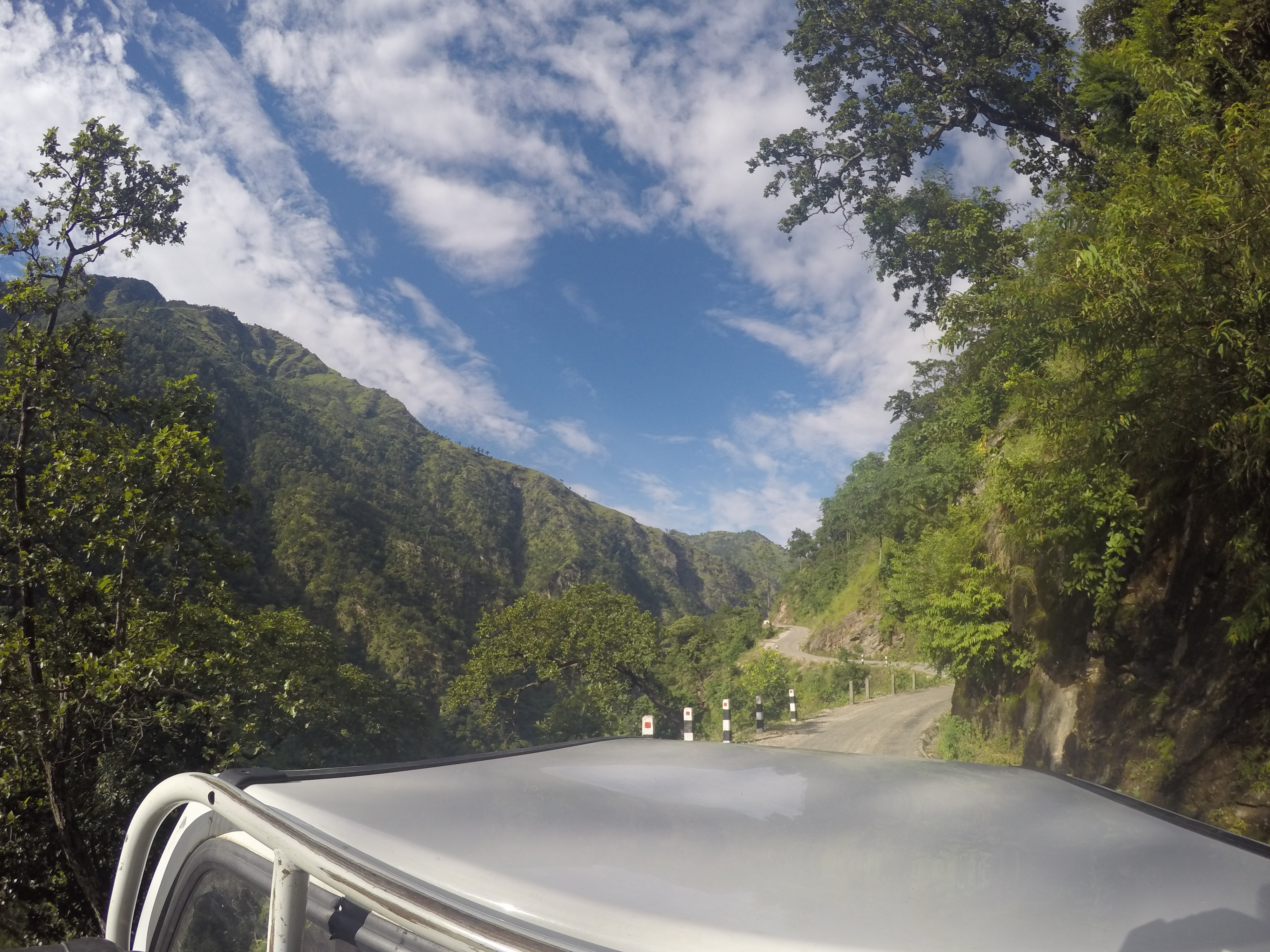 It's picture of Karnali Highway near to Kalikot